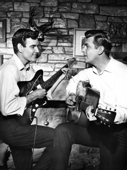 Photo of James Best and Andy Griffith from the television program The Andy Griffith Show. Best plays a former Mayberry resident, Jim Lindsey, who became a famous musician.